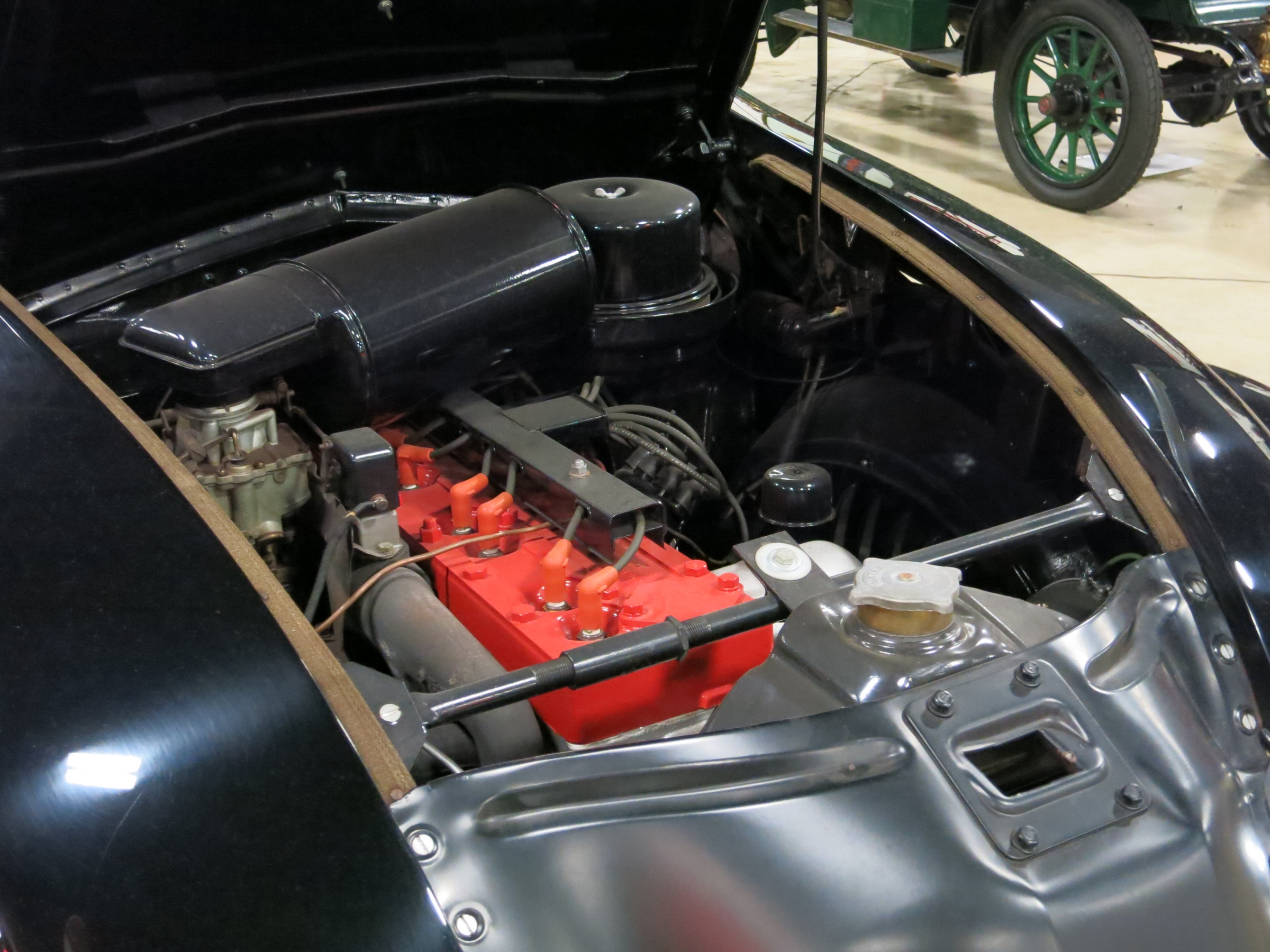 1937 Chrysler Airflow (C17) Tupelo Automobile Museum Tupelo, Mississippi